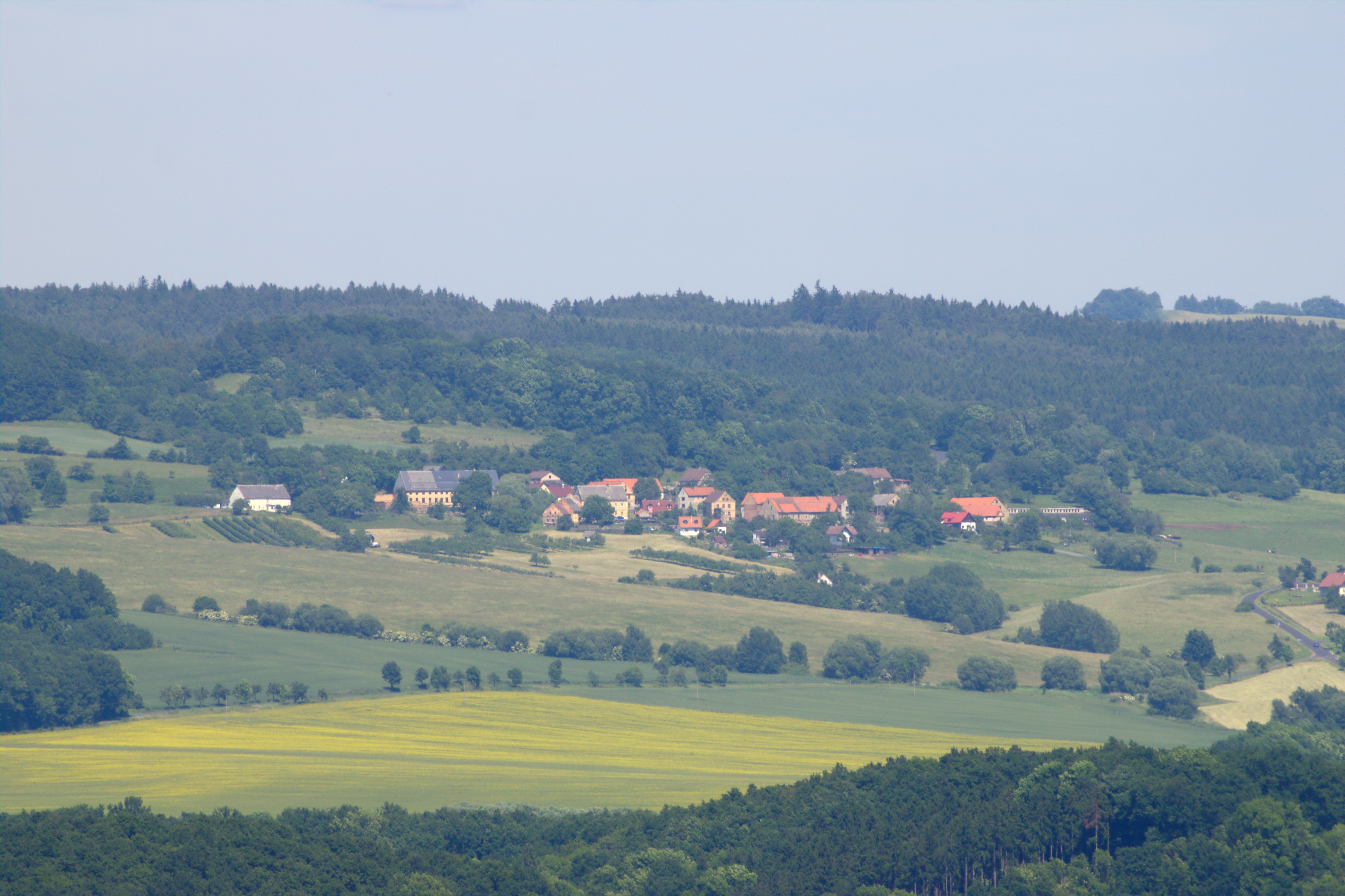 View of the village of Horní Týnec from Myštice, Ústí Region, CZ